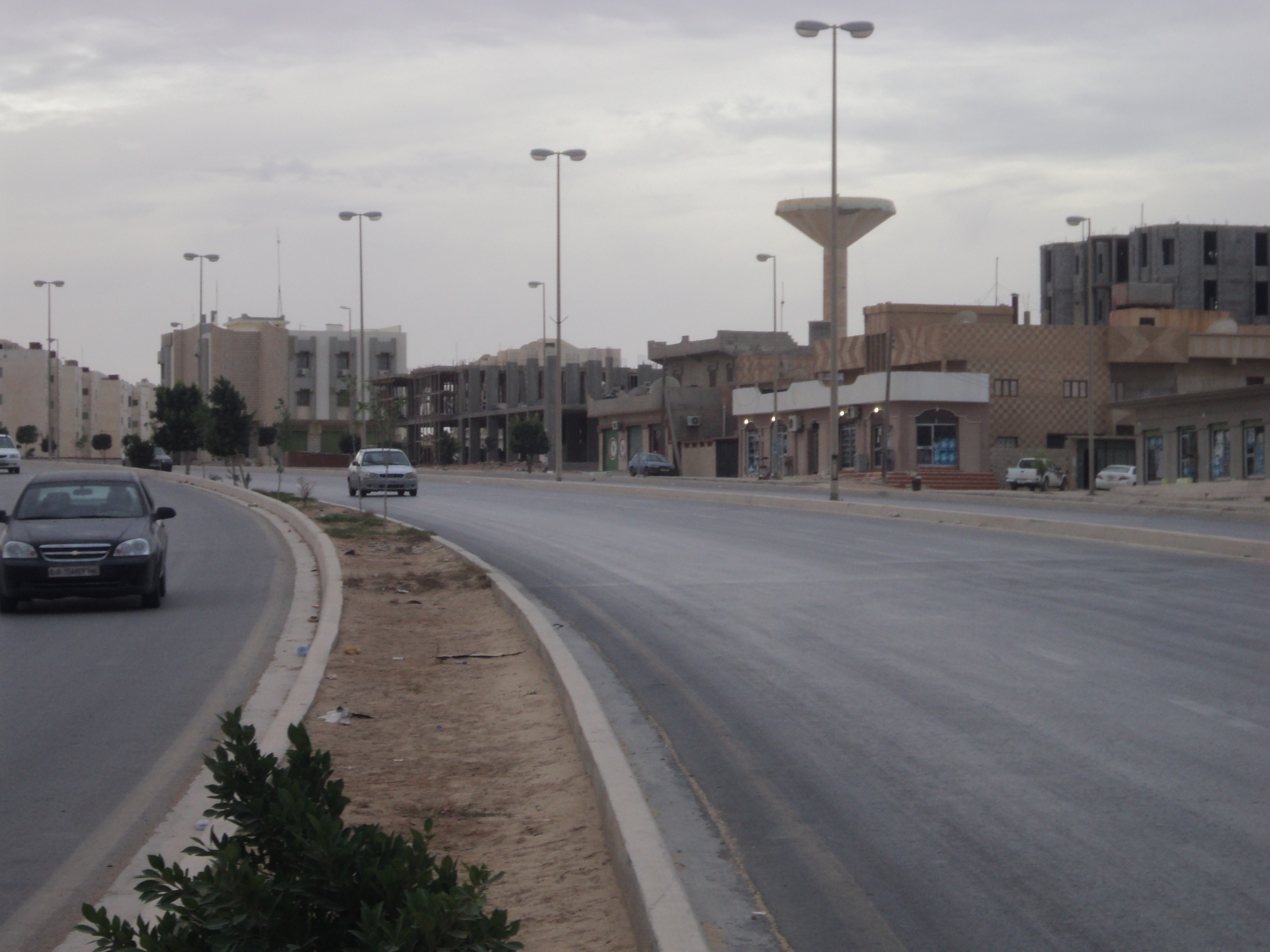 A view of Tobruk-Libya.